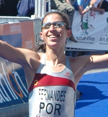 The portuguese triathlete Vanessa Fernandes finishes the Triathlon WM 2006 in Lausanne as number two